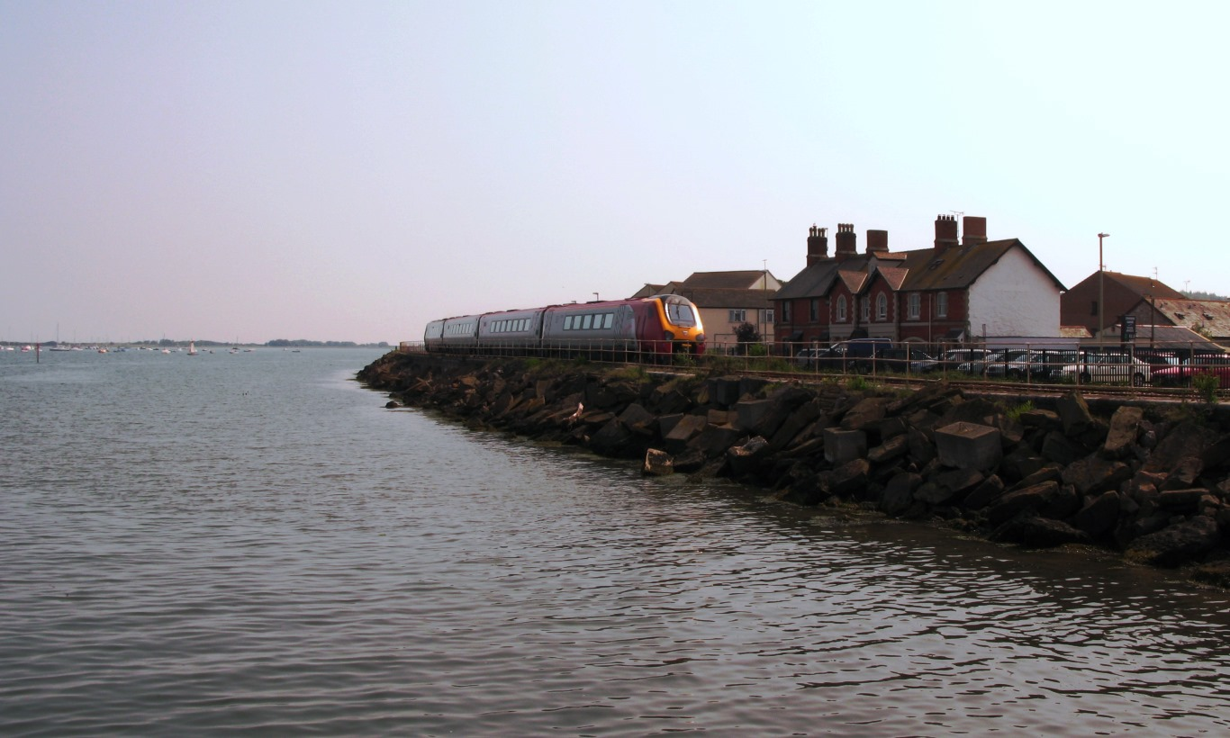 Virgin Cross Country Voyager DMU approaching Starcross